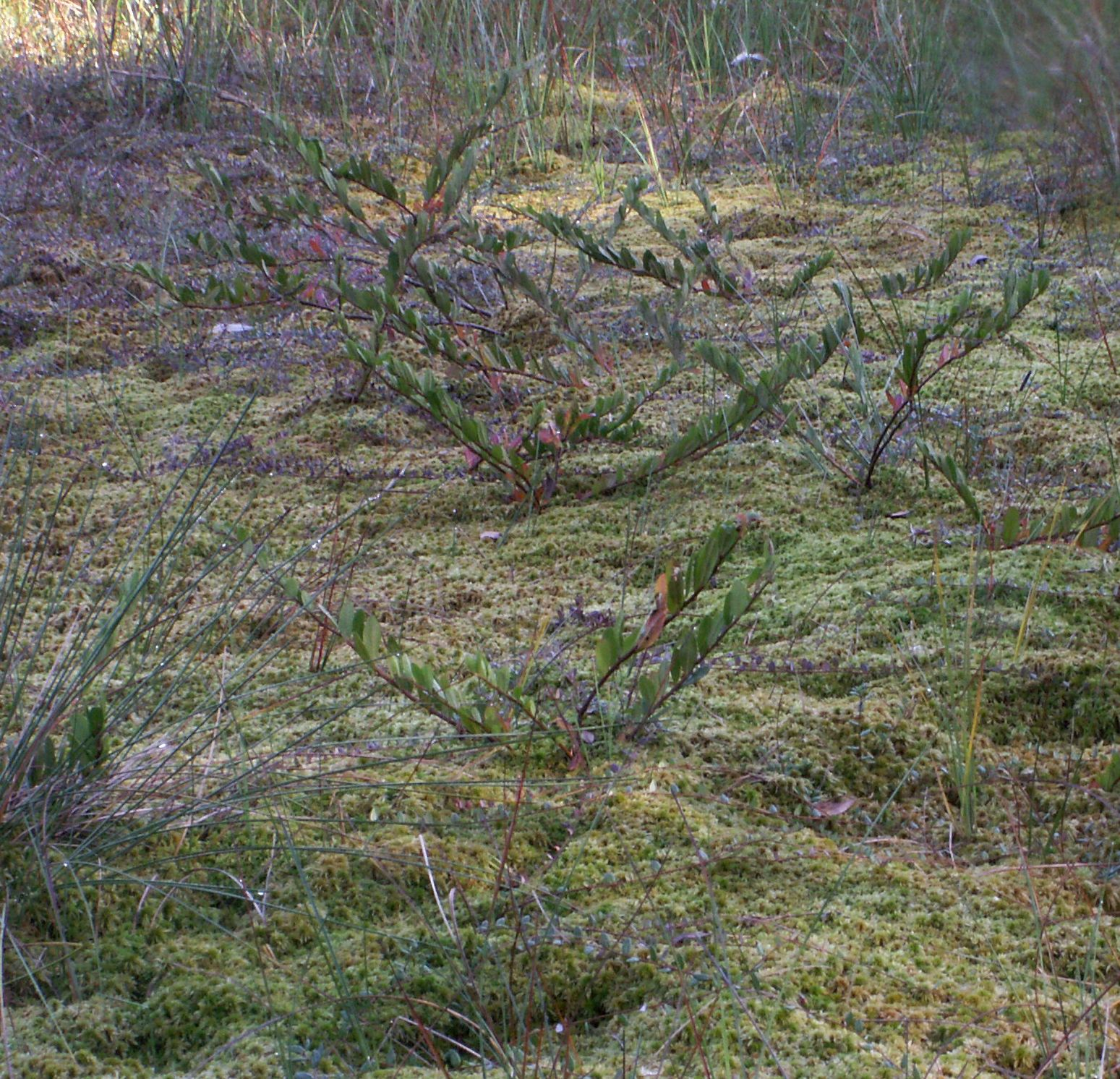 Chamaedaphne calyculata auf Schwingrasen, Litauen